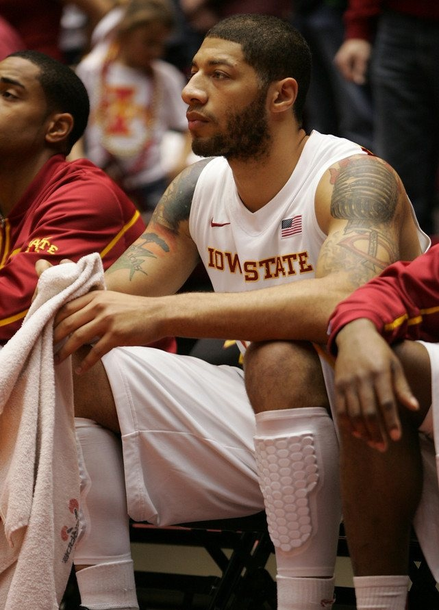 Royce White on March 3, 2012